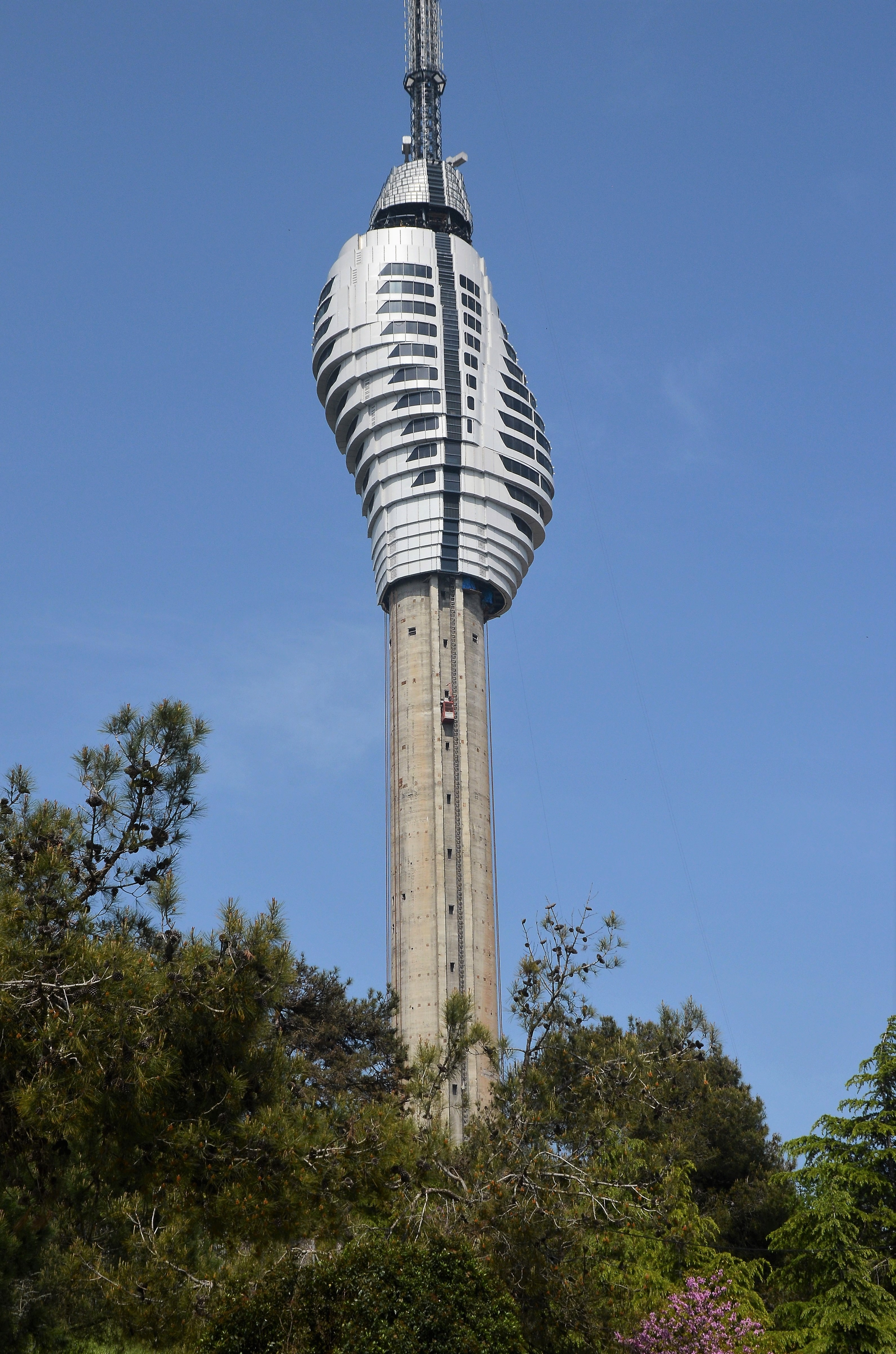 Küçük Çamlıca TV Radio Tower at Küçük Çamlıca, Üsküdar, Istanbul under construction.